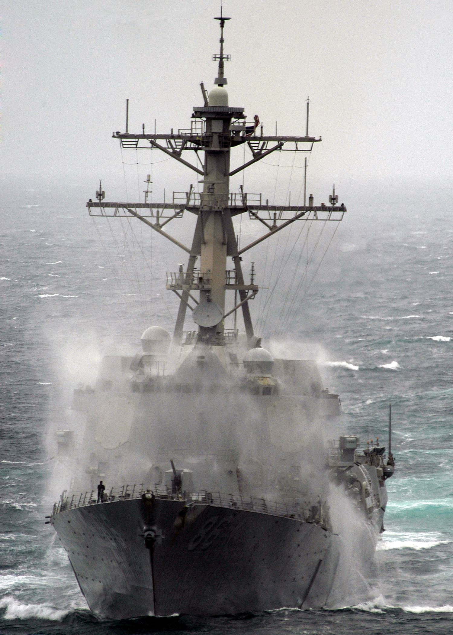 Pacific Ocean (June 3, 2005) – The guided missile destroyer USS Shoup (DDG 86) performs a test of ship's countermeasure water wash down system (CMWDS). The CMWDS provides a blanket of water protection to the exterior of a ship during a chemical, biological or radiological (CBR) attack. This shield of water washes CBR contaminants over the side before they can adhere to the ship’s surface or affect the crew. Shoup is assigned to the Lincoln Carrier Strike Group currently at sea conducting readiness training in support of the Navy’s Fleet Response Plan. U.S. Navy photo by Photographer's Mate Airman Apprentice Ronald A. Dallatorre (RELEASED)